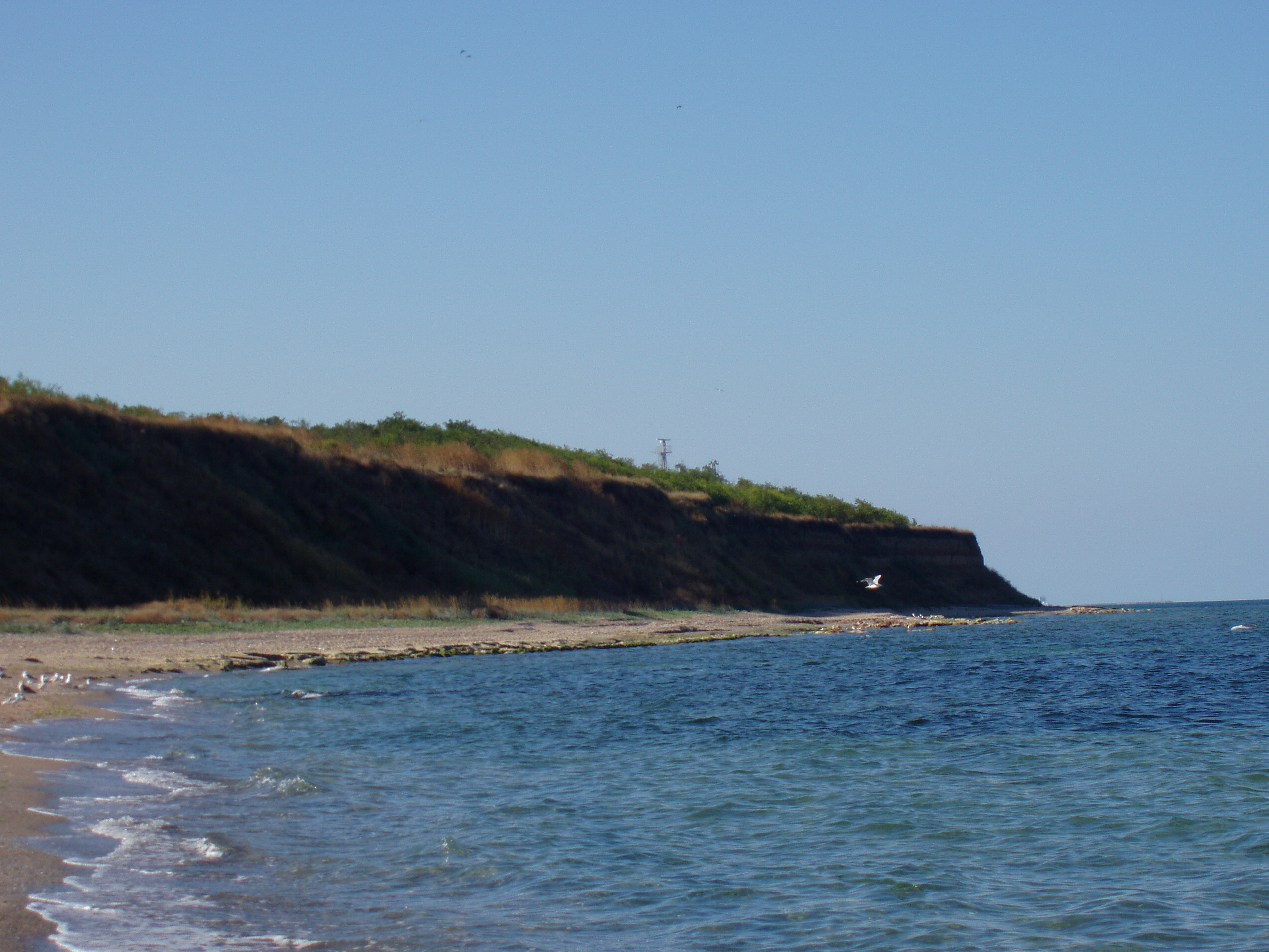 The end of Bulgarian Black Sea coast